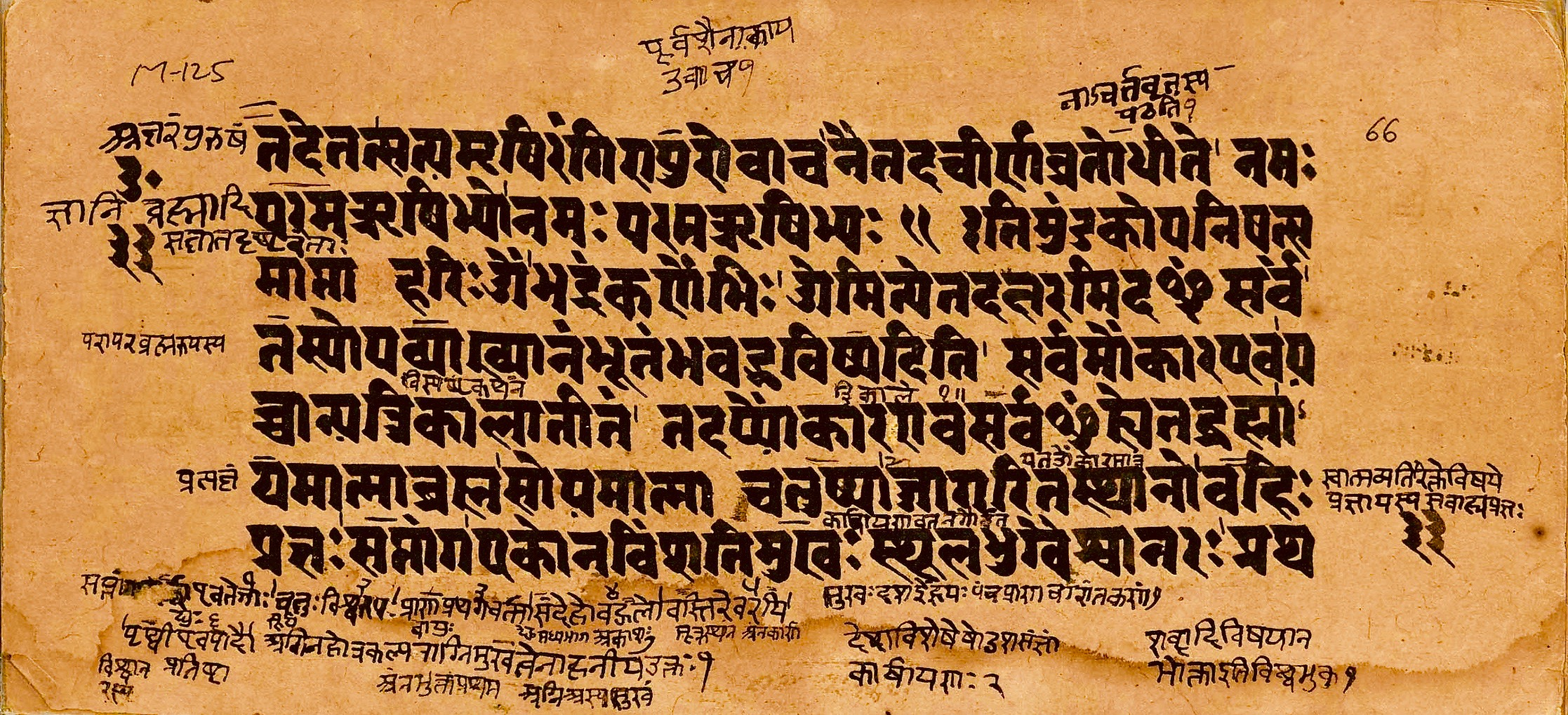 The early Upanishads (Upanisad, Upanisat) are scriptures of Hinduism. Variously dated by scholars to have been composed between 900 BCE to about 200 BCE, these texts are in Sanskrit language and embedded within a layer of the Vedas. They contain a mixture of philosophy and mystical speculations, many set in the form of dialogues or pedagogic style. Their central teachings include the concepts of Atman (soul, self) and Brahman (metaphysical reality). These manuscripts are preserved at the Lalchand Research Library, Ancient Indian Manuscript Collection, DAV College Digital Library Initiative, Chandigarh India, in association with SP Lohia and Indorama Charitable Trust. The texts are over 2000 years old, the re-copying into this particular manuscript is dated to a pre-1867 reproduction (exact date unknown). The manuscript shows significant decay and damage on the sides and its edges. Language: Sanskrit Script: Devanagari Script style: pre-14th century (Northern / Western) Mandukya Upanishad, verses 1-3, partially 4 The thick text is the Upanishad scripture, the small text in the margins and edges are an unknown scholar's notes and comments in the typical Hindu style of a minor bhasya. The photo above is of a 2D artwork of a text that is over 2,000 years old, from a manuscript that was produced decades before 1923. Therefore Wikimedia Commons PD-Art licensing guidelines apply. Any rights I have as a photographer is herewith donated to wikimedia commons under CC 4.0 license. माण्डुक्योपनिषद्